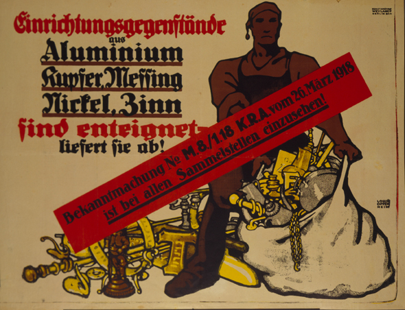 By 1918 the German economic situation had become so desperate that the government confiscated personal items made of metal. The poster, designed by Louis Oppenheim, reads: “Home Furnishings made of Aluminum, Copper, Nickel, Tin are Confiscated - Deliver Them Now! The Proclamation No. M./1.18 from K[riegs]R[ohstoff]A[bteilung] [War Materials Department] of March 26, 1918, is to be in view at all collection points.” The metals collected in this way were melted down and used for the war effort.